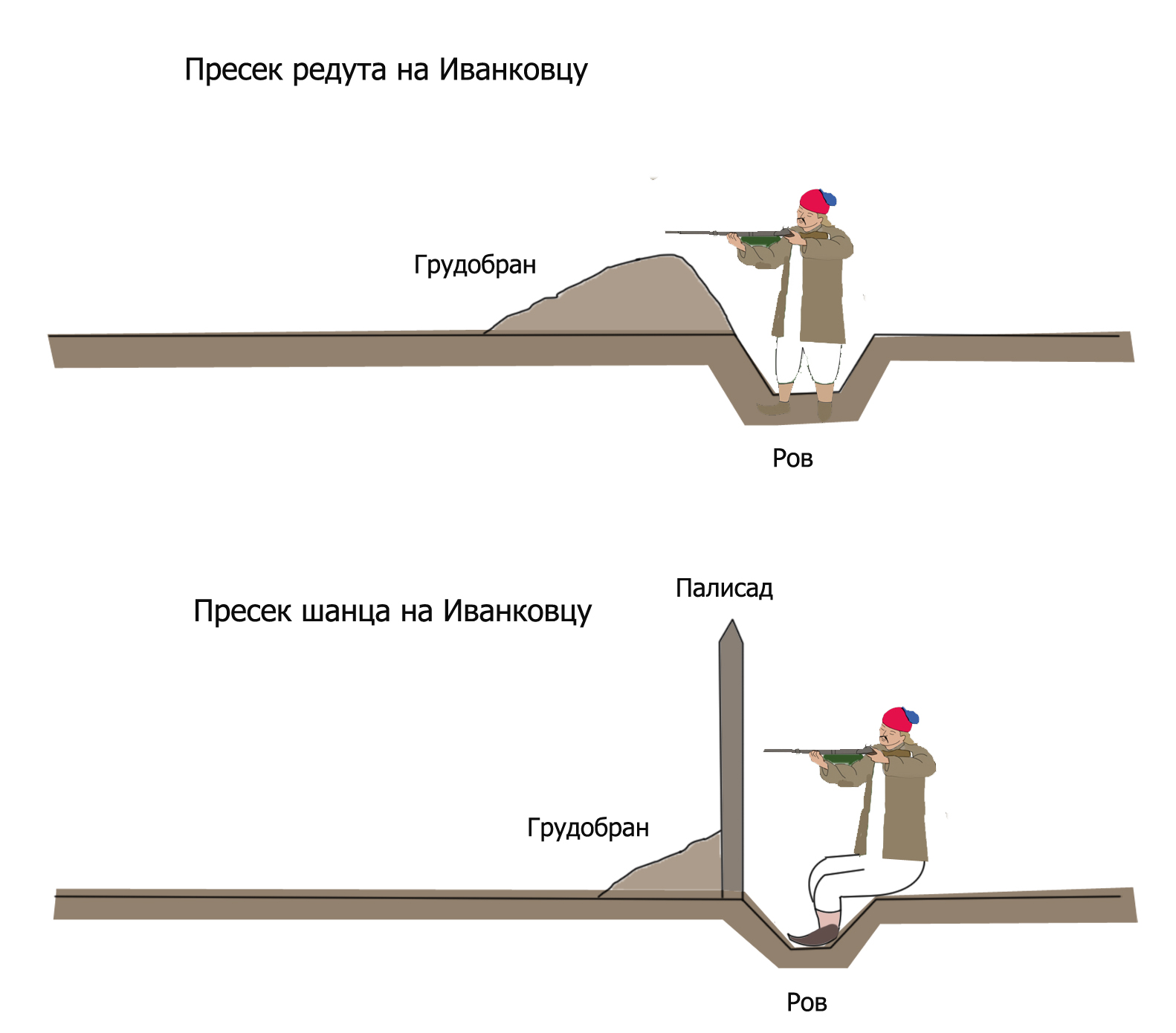 The colored ilustration of Ivankovac battle earth and palisade fortress and earth redoubt with Serbian rebel shooter